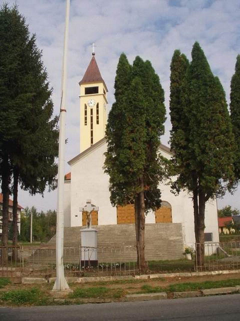 Lipik - Catholic Church